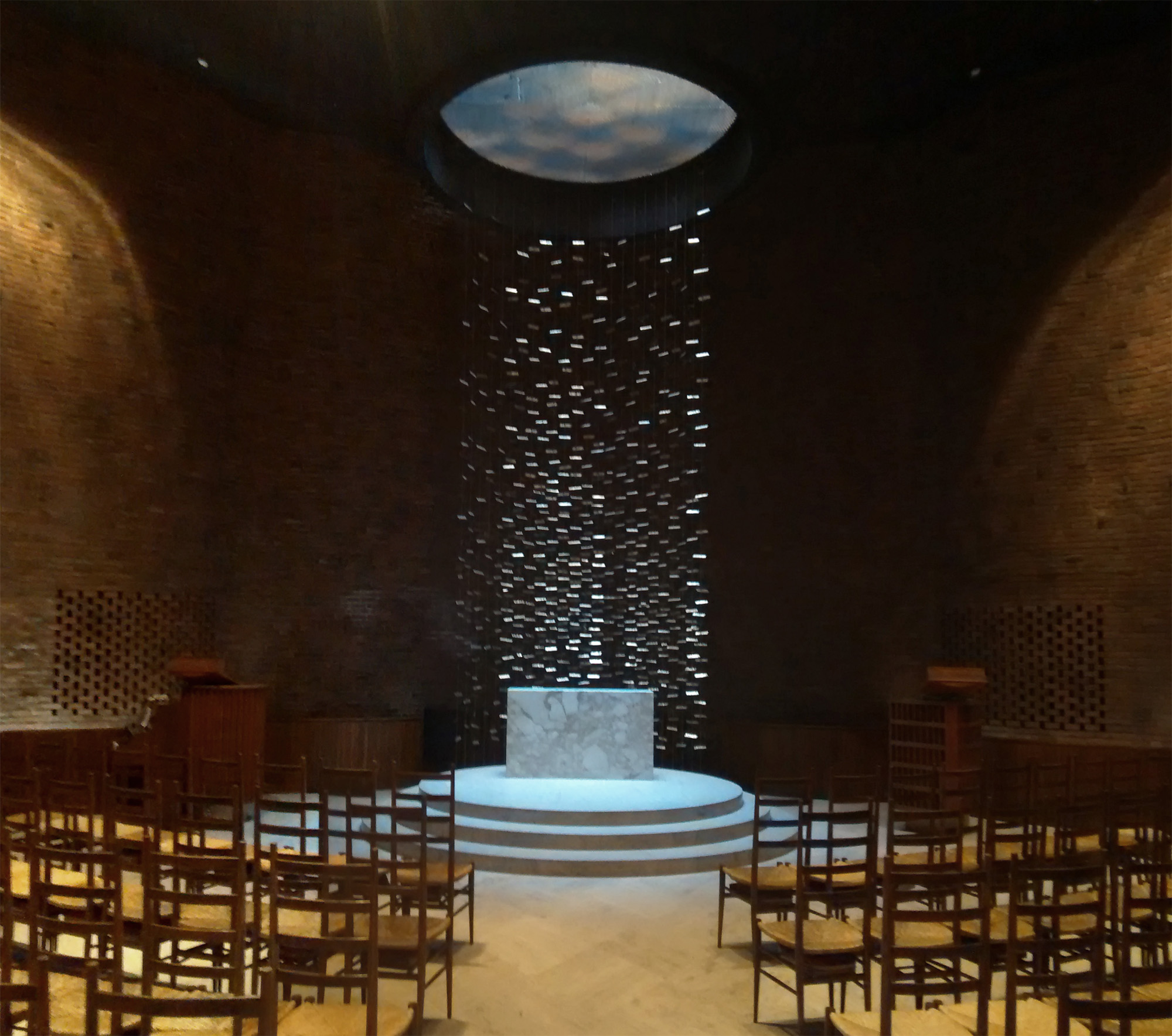 MIT Chapel, Interior, Eero Saarinen, Massachusetts Institute of Technology, Cambridge, Massachusetts, Apr. 2014